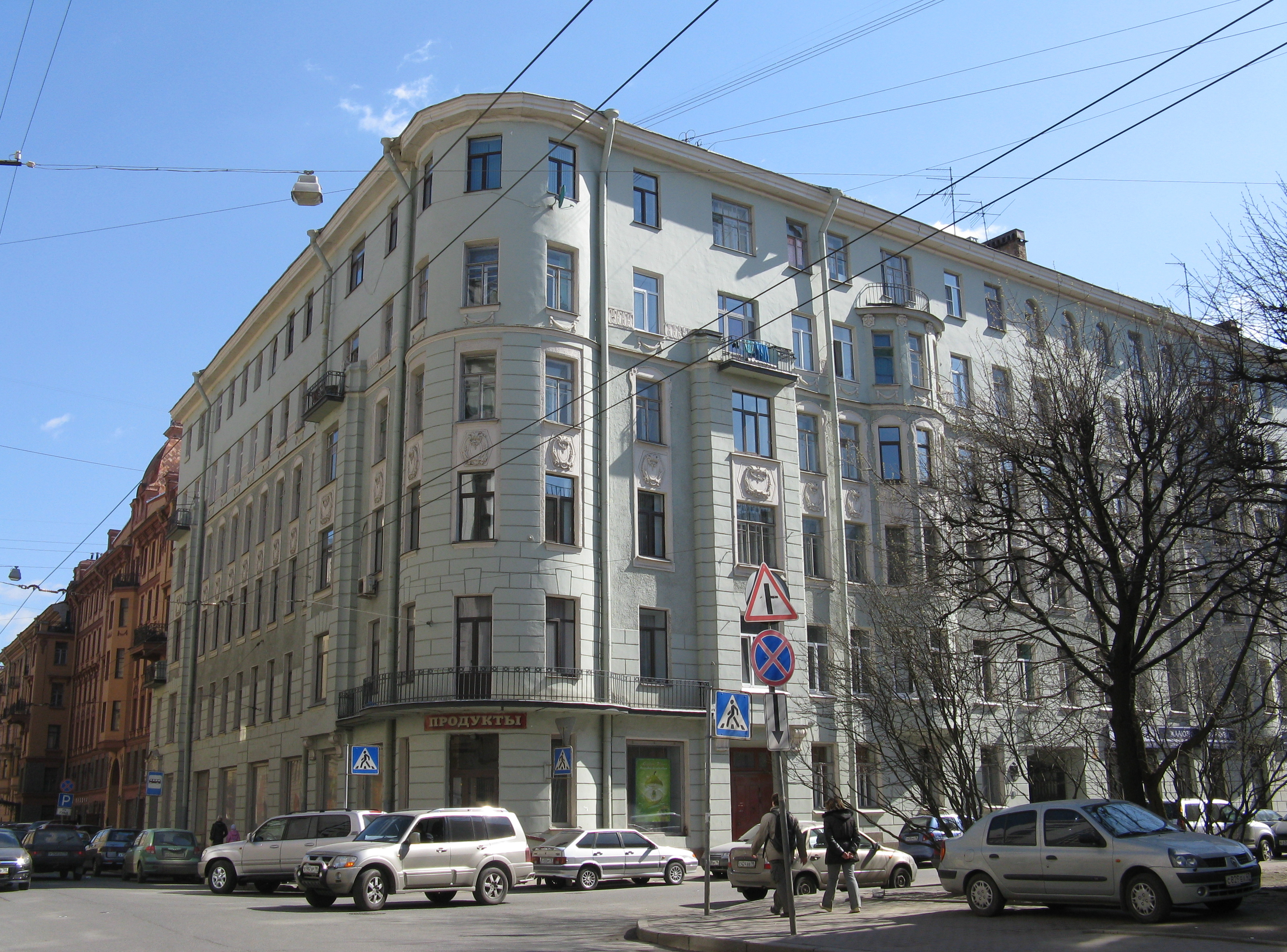 Bolshaia Monetnaia, 21 - Malaia Monetnaia, 9. St-Petersburg Architect: Pavel Rezvy. 1910